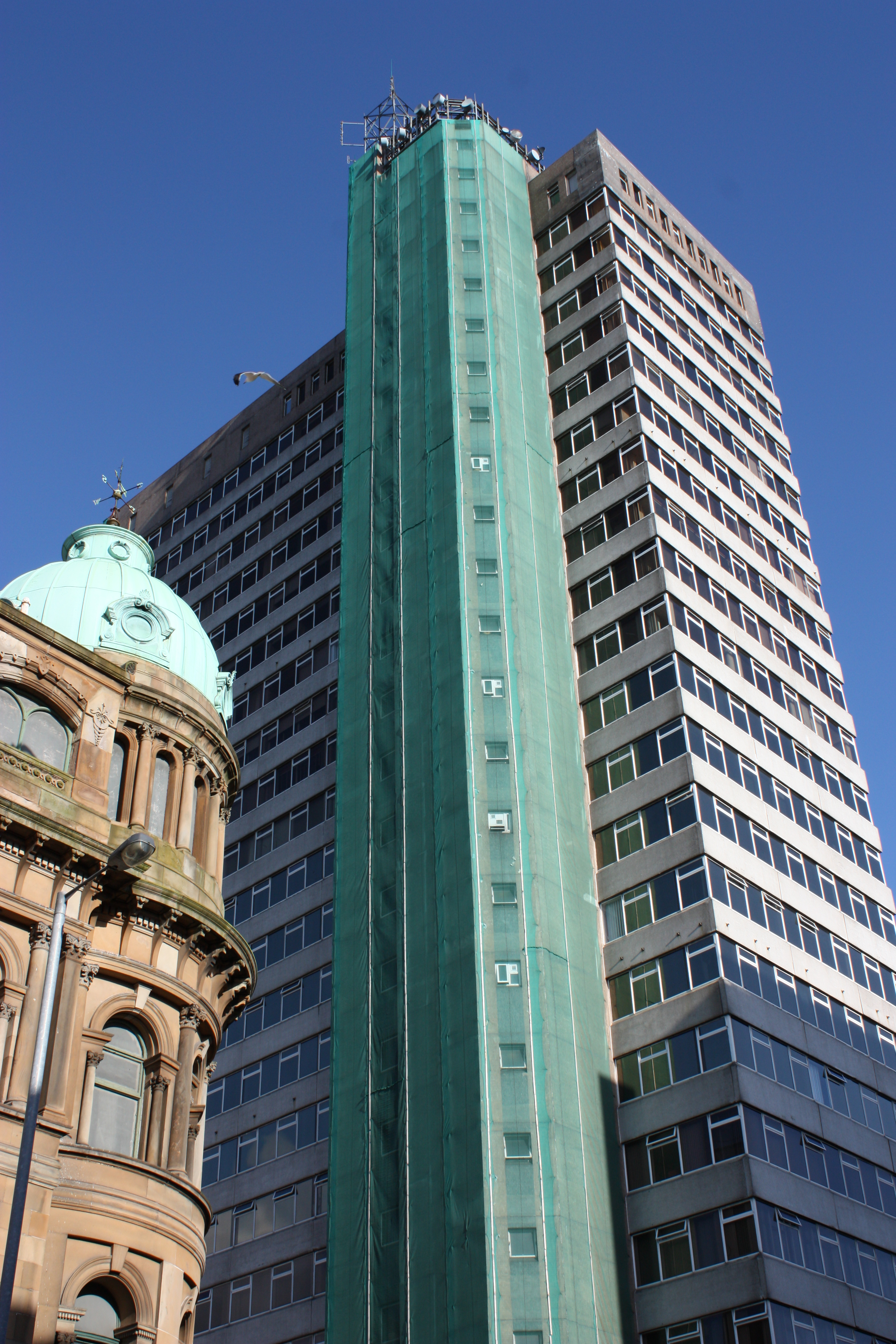 Windsor House, Bedford Street, Belfast, Northern Ireland, May 2010